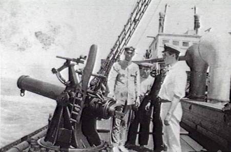 AWM caption : "ONE OF THE 7.5 INCH HOWITZER GUNS ABOARD S.S. BOONAH, FORMERLY THE GERMAN - AUSTRALIAN LINER MELBOURNE, CAPTURED AT SYDNEY AT THE OUTBREAK OF WORLD WAR 1 AND THEN COMMANDERED FOR USE AS A TRANSPORT SHIP."